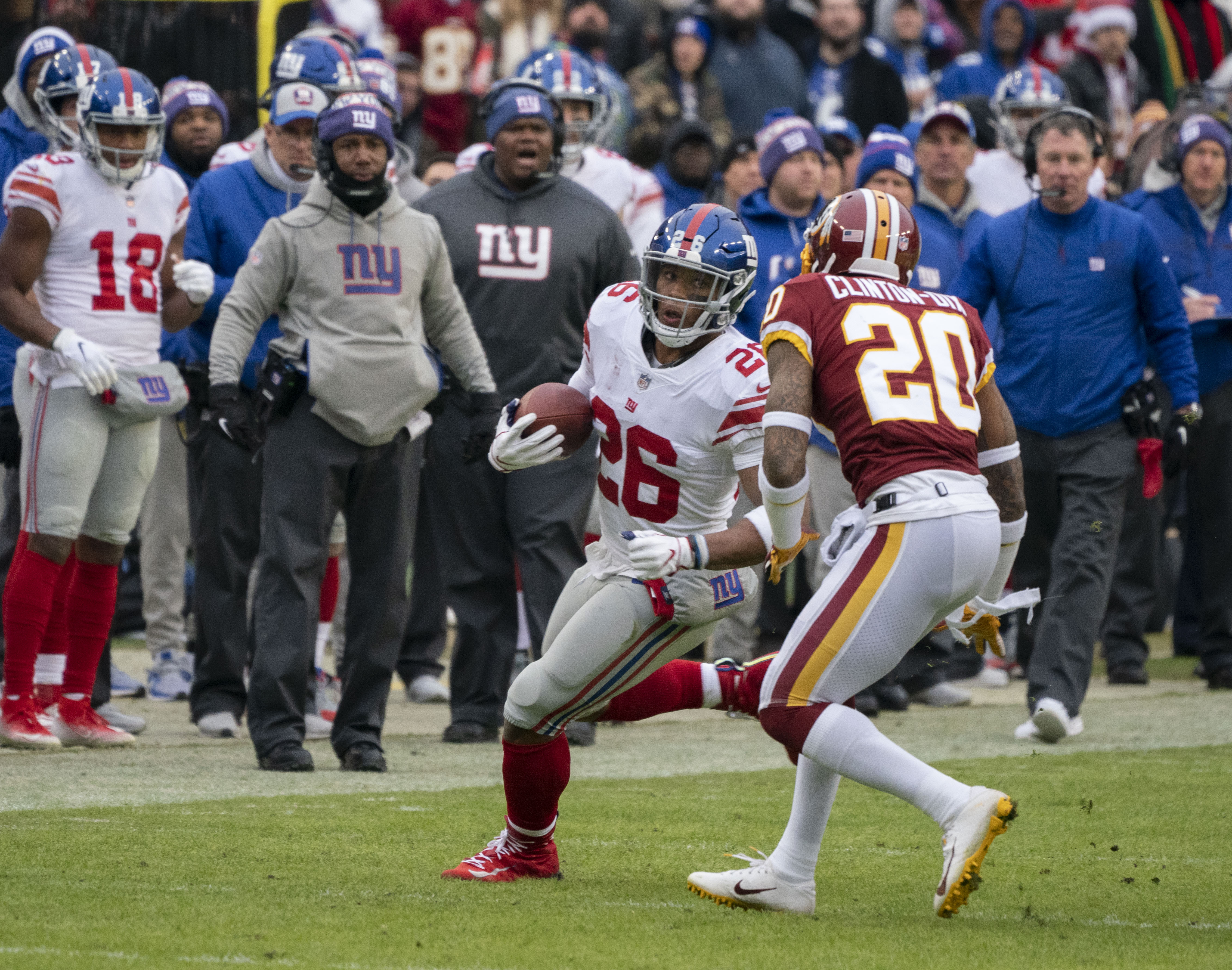 Running back Saquon Barkley of the New York Giants carries the ball in a game against the Washington Redskins at FedExField on December 9, 2018 in Landover, Maryland.